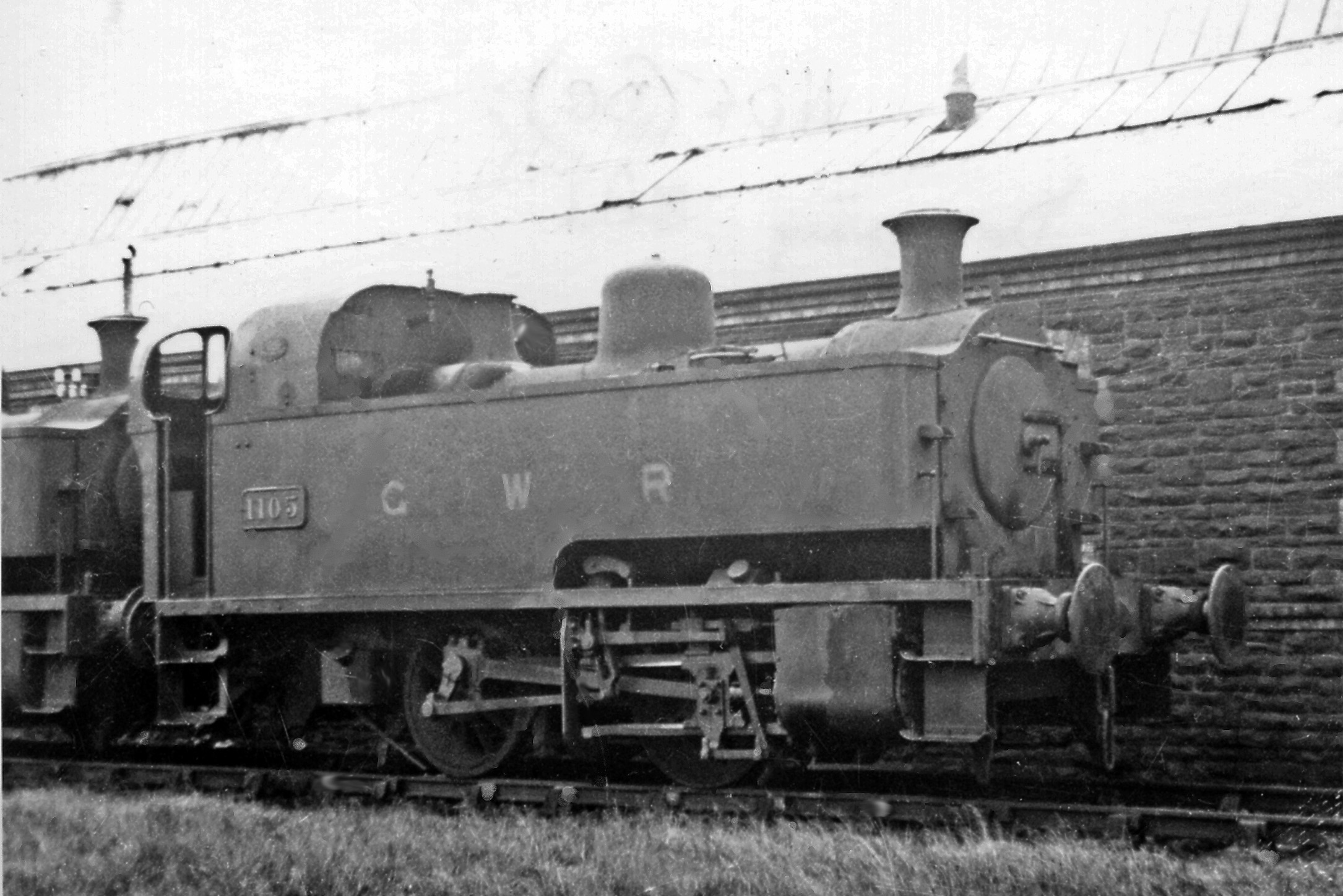 Collett GWR 0-4-0 Dock Tank at Danygraig Depot. No. 1105 was one of the relatively modern GWR Dock Tanks, built 8/26 and lasting until 1/60. See also SS6993 : Danygraig Locomotive Depot, with ex-Powlesland & Mason dock tank.